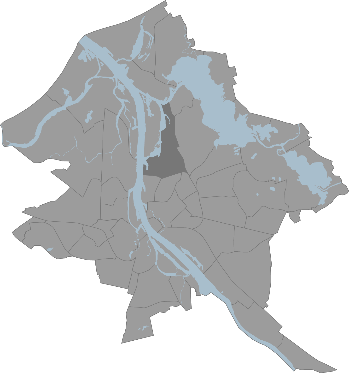 A map of Riga, Latvia with the eponymous commune highlighted